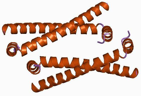 Cartoon representation of the molecular structure of protein registered with 1a92 code.